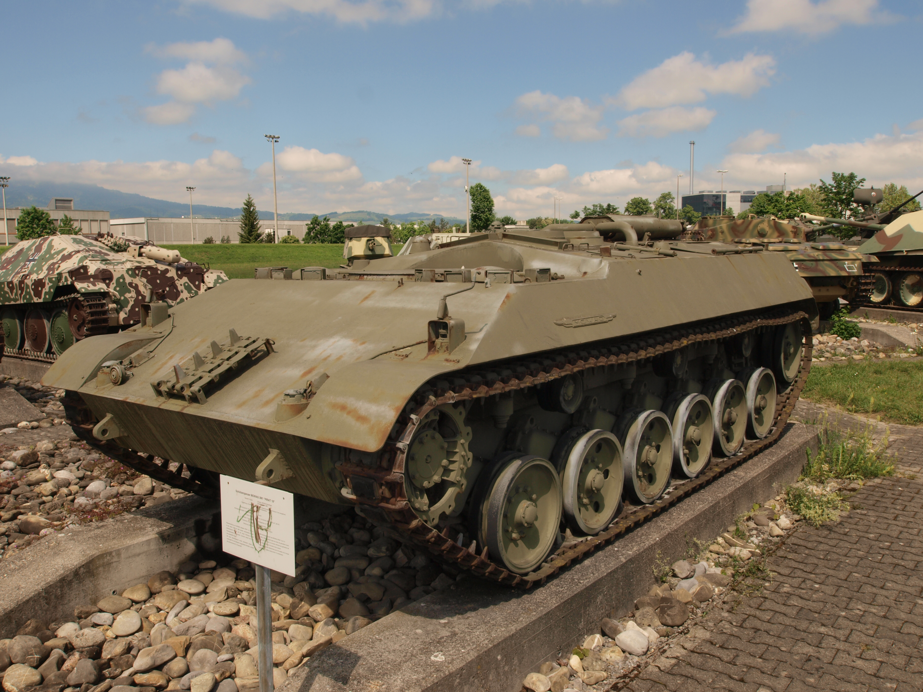 Photographed at the army base Thun, Switserland.